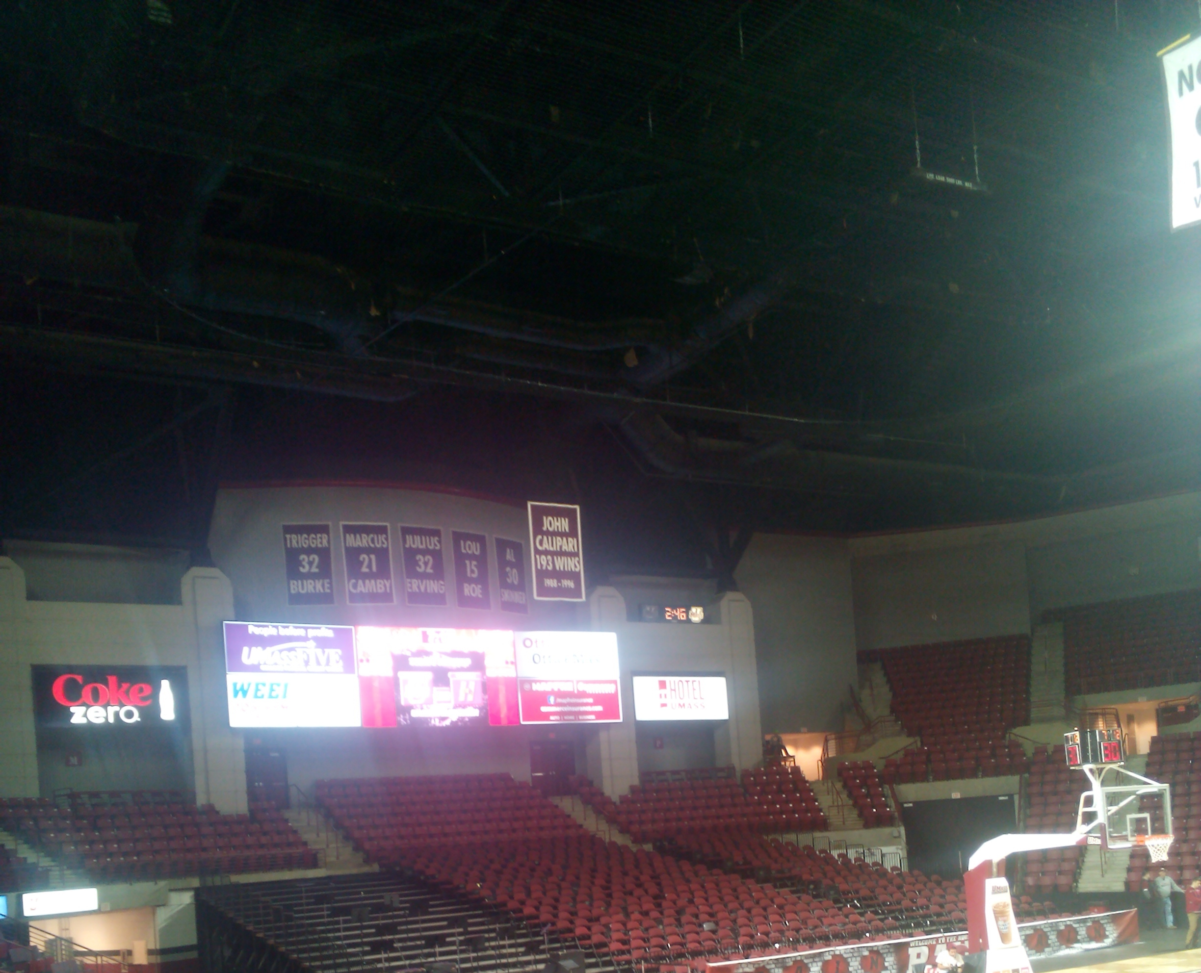 retired numbers of UMass Minutemen basketball team